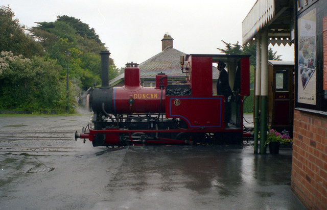 Duncan is ready!